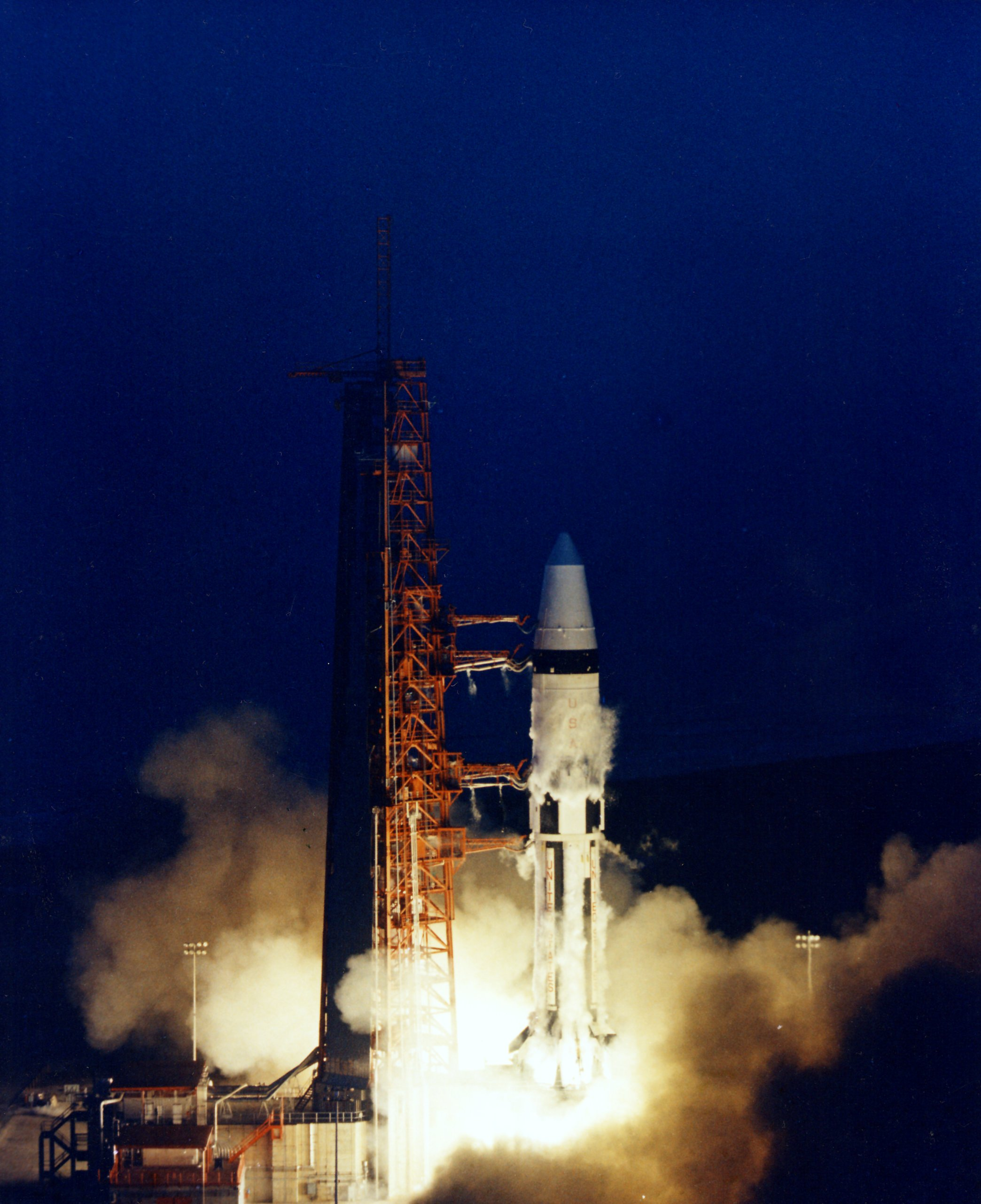 Early evening launch of Apollo 5 from pad 37B; an unmanned lunar module test flight.